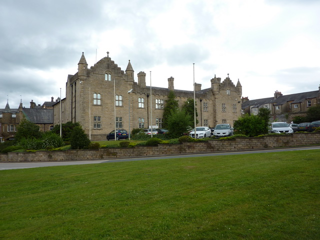 Photograph of the barracks in Lancaster